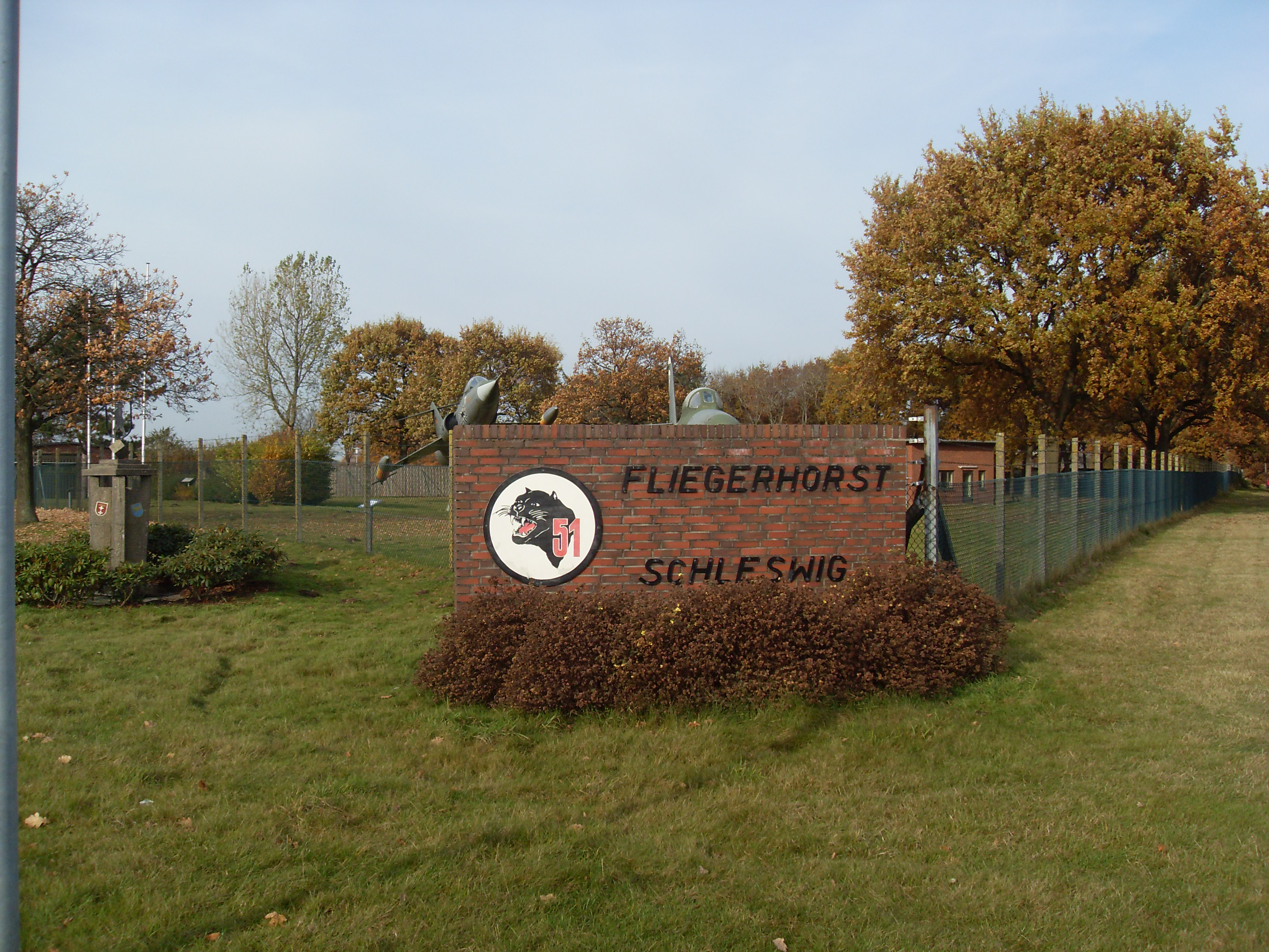 Moin entrance to Fliegerhorst Schleswig